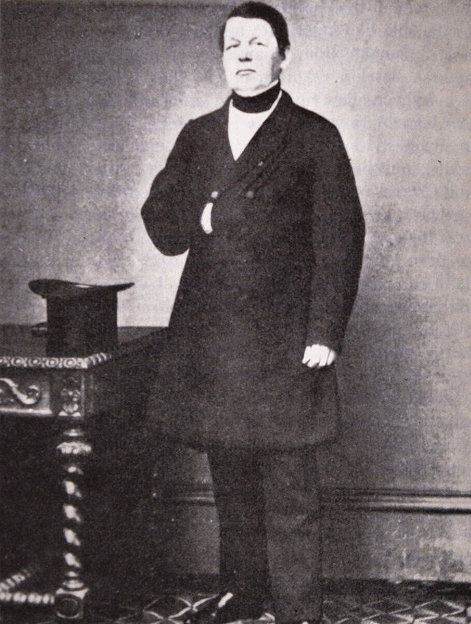 Professor (Chemistry) Adolf Edvard Arppe (1818–1894) was a Finnish Senator and Rector of the University of Helsinki (1858–1869). Ennobled in 1863. Married with his sister-in-law Mimmi Porthan. Half-brother of Nils Ludvig Arppe.